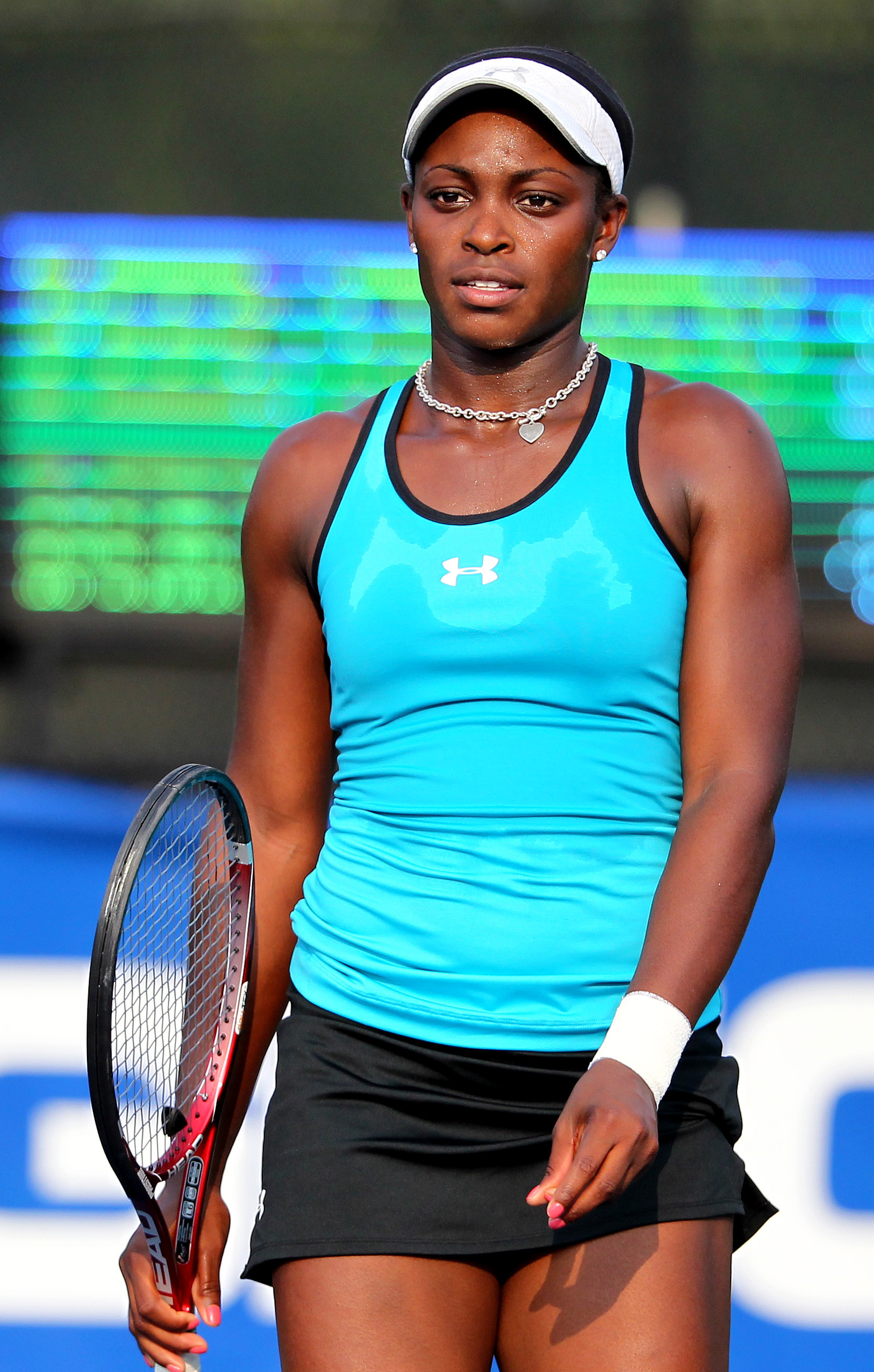 Citi Open Tennis July 29, 2011